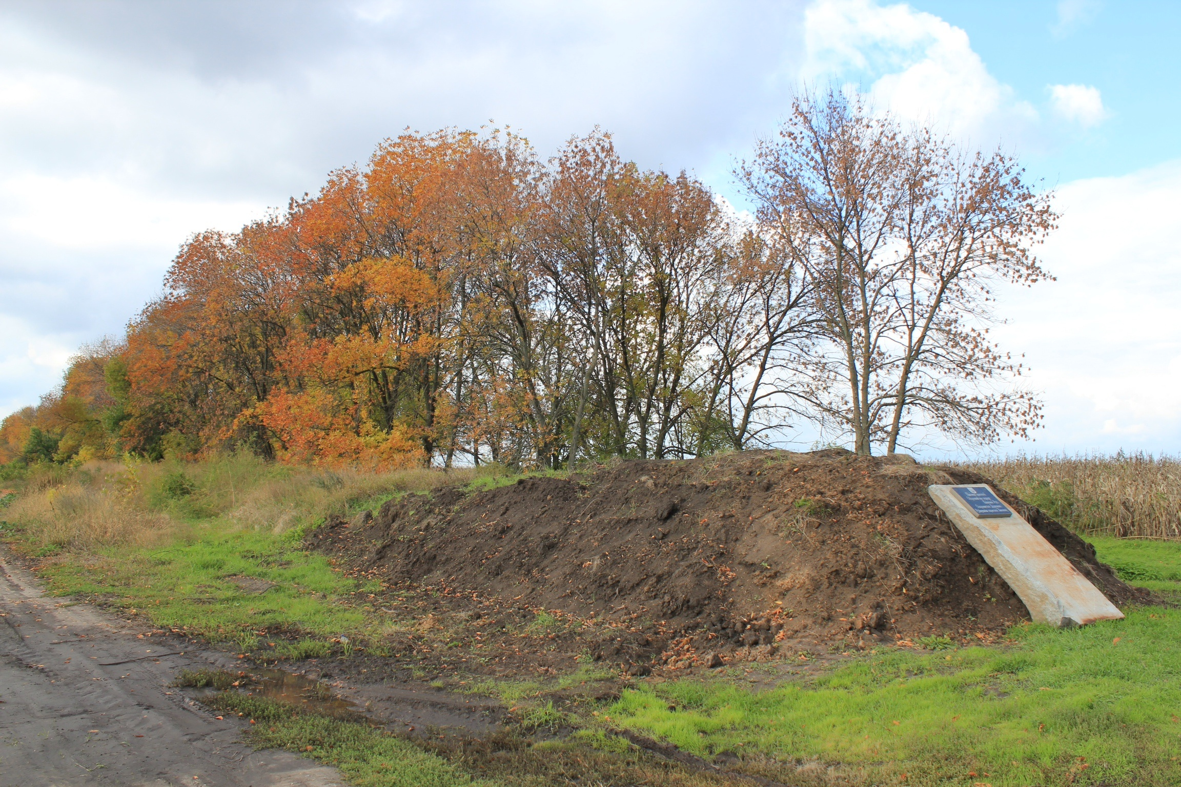 Змієві вали Переяславщини